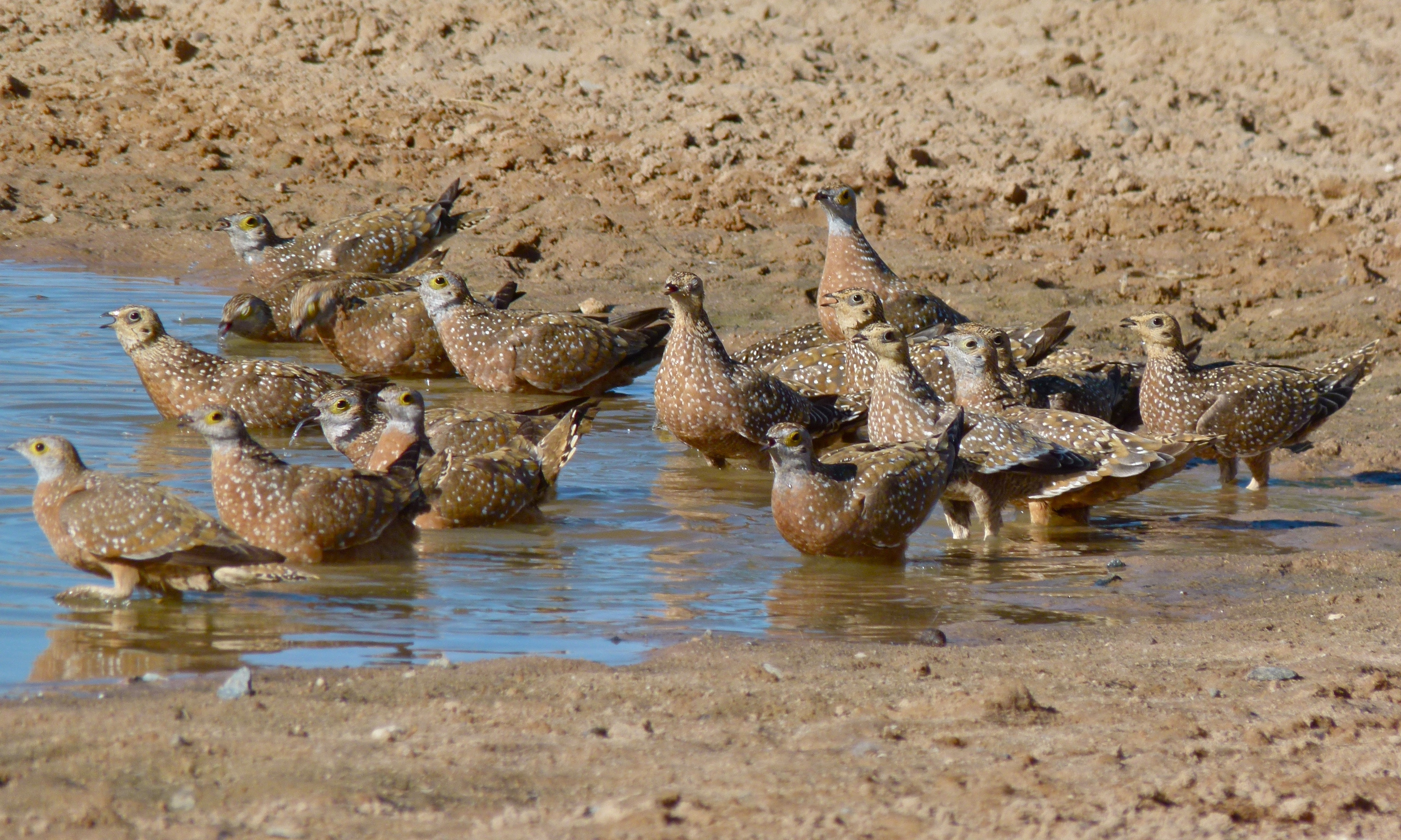 Union's End Waterhole, Kgalagadi Transfrontier Park, SOUTH AFRICA